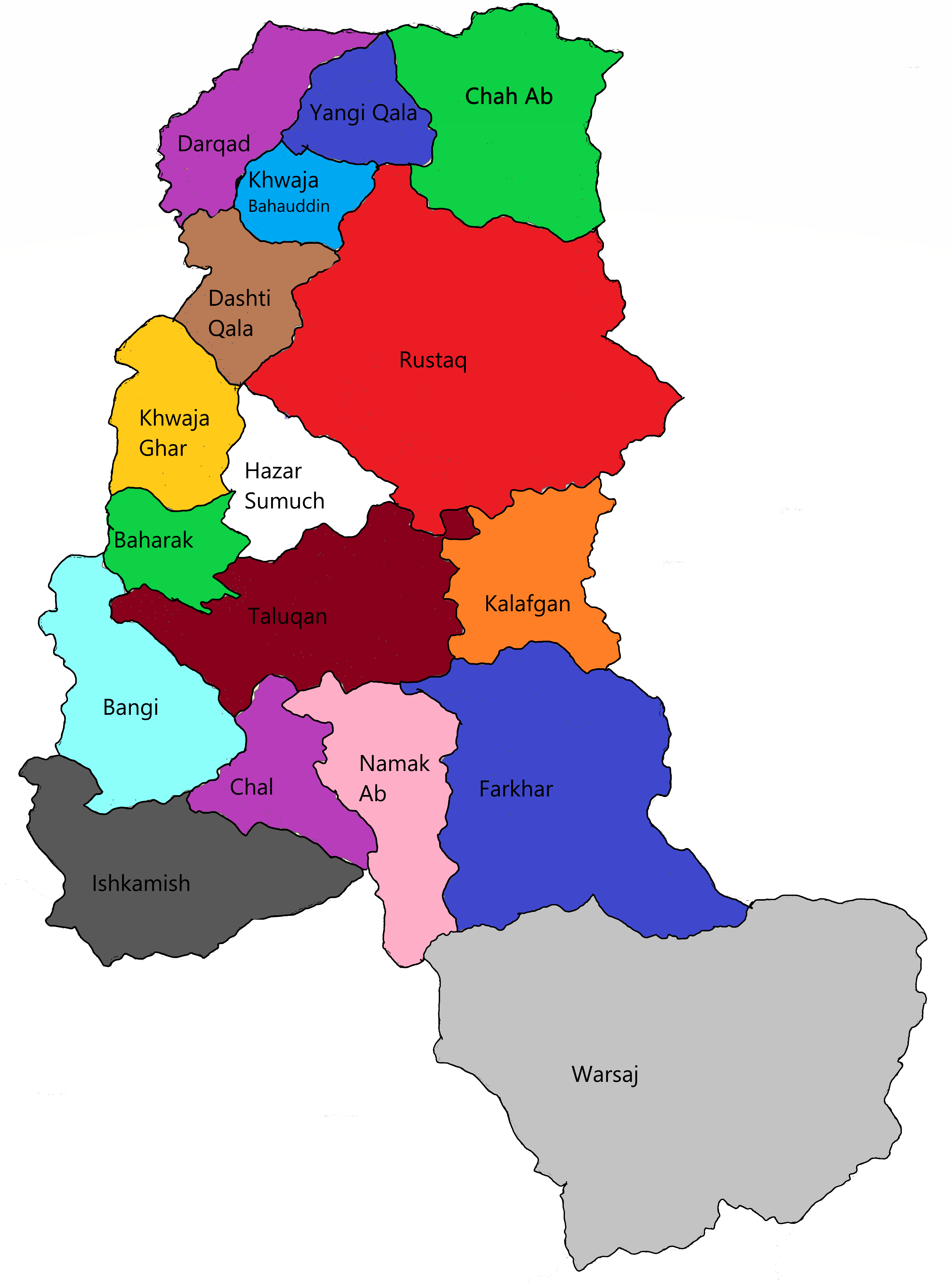 Map of Districts in Takhar Province, Afghanistan. Derivative work of a reference map published by the United Nations Office for the Coordination of Humanitarian Affairs, hosted on Original work licensed under CC-BY-SA 4.0, declared at the footer of the web page. Differences between image and original work: District borders highlighted, districts filled in with color. Made with Paint 3D.